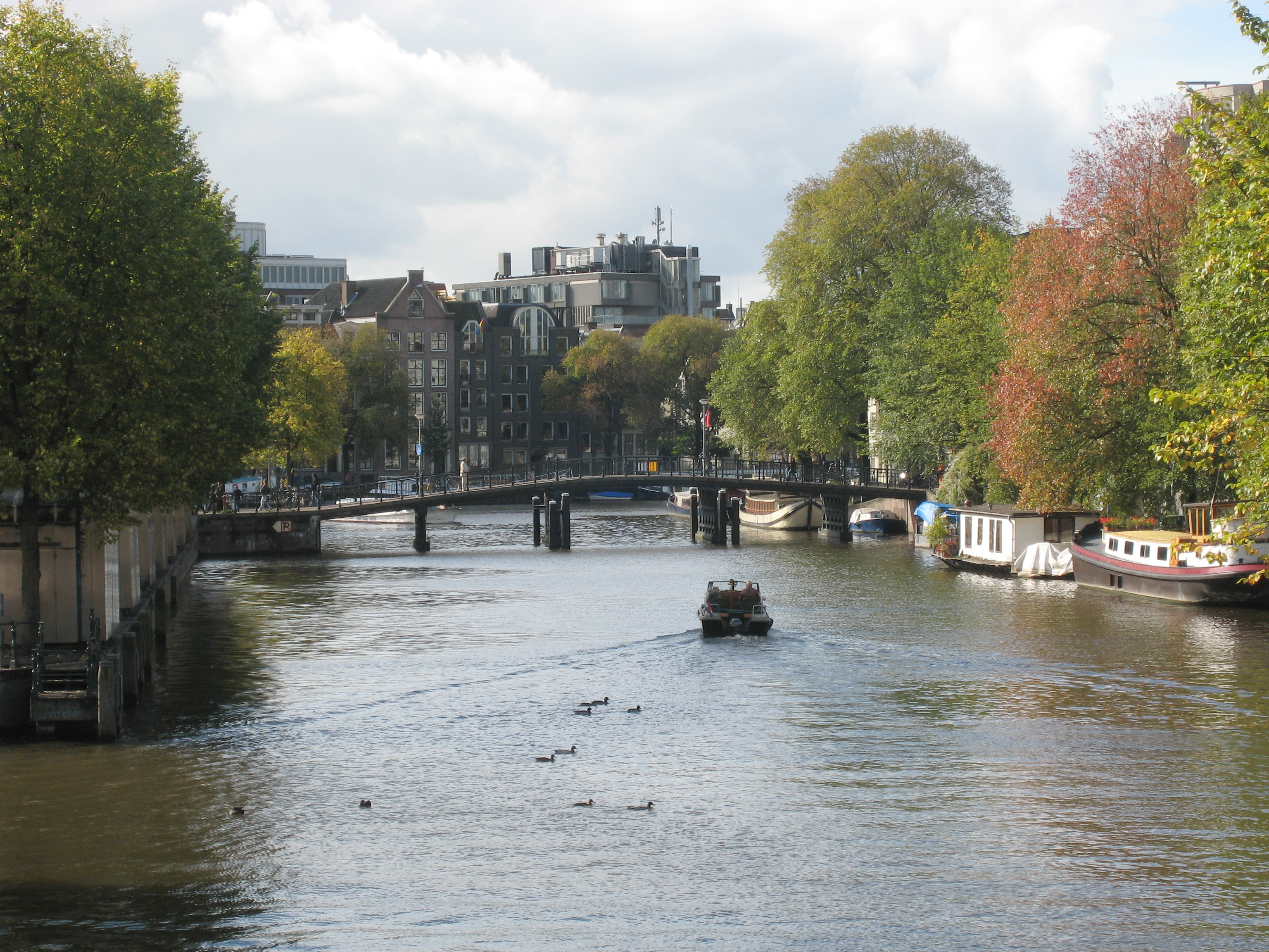 The Zwanenburgwal, a canal in Amsterdam. At the very left edge stalls of the famous Waterlooplein fleamarket.